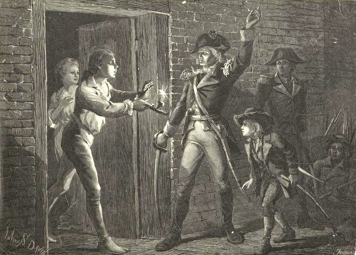 A print depicting Ethan Allen's Capture of Fort Ticonderoga in May 1775. The original print measures 24 x 33 cm. (9 1/4 x 13 in.); this image has been slightly cropped from the original to remove border and defects near the border.